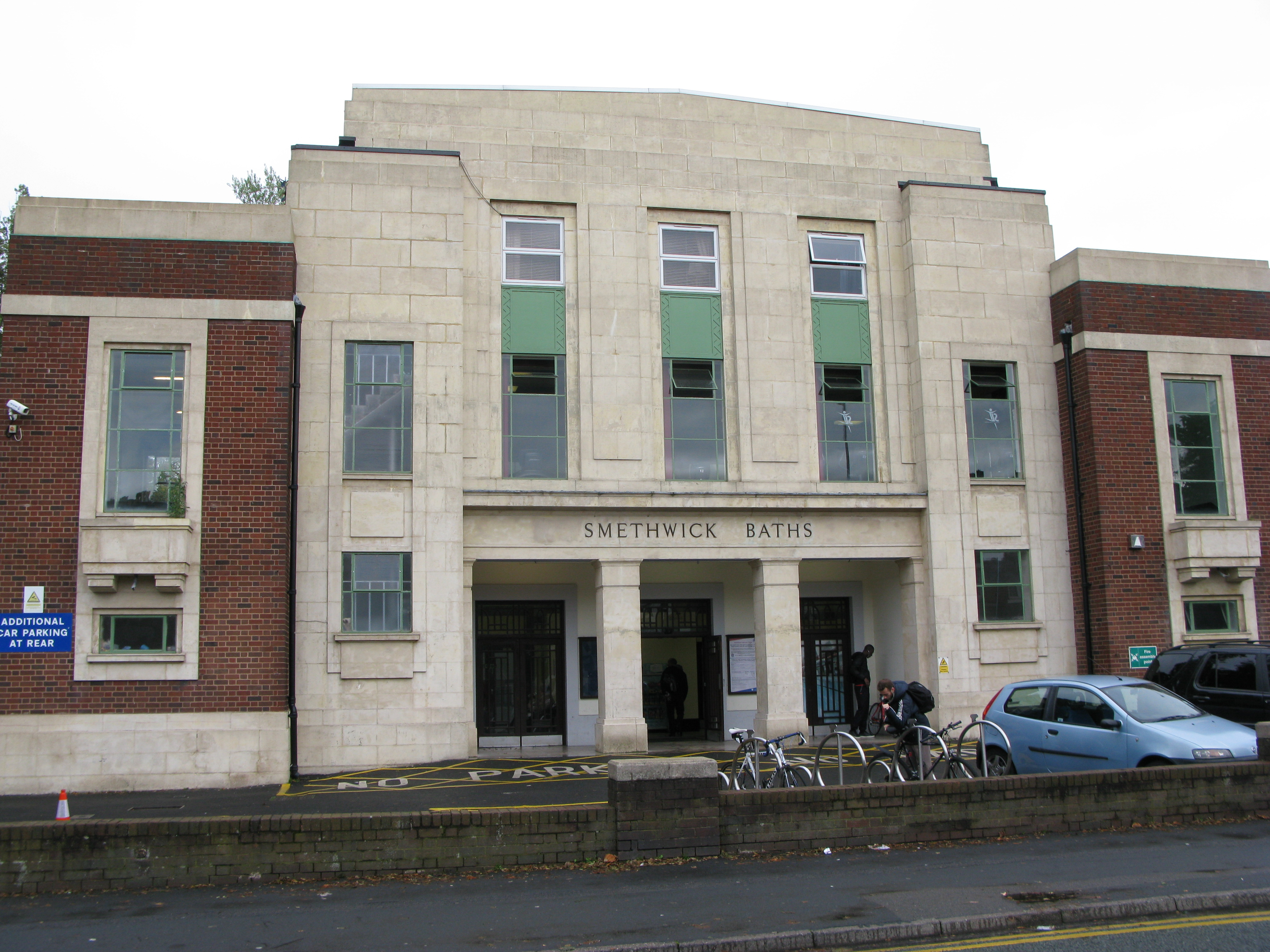 Grade II